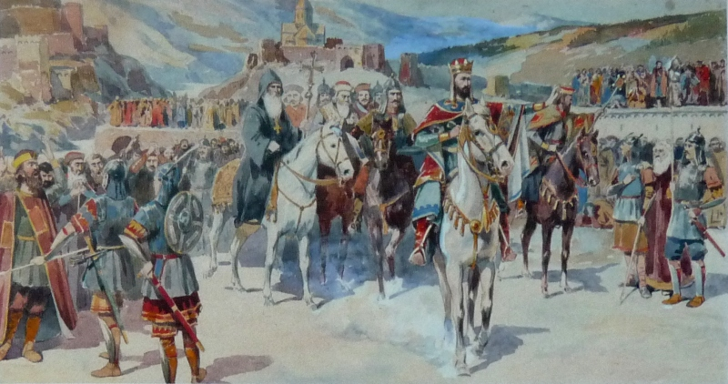 "Demtre the Devoted"